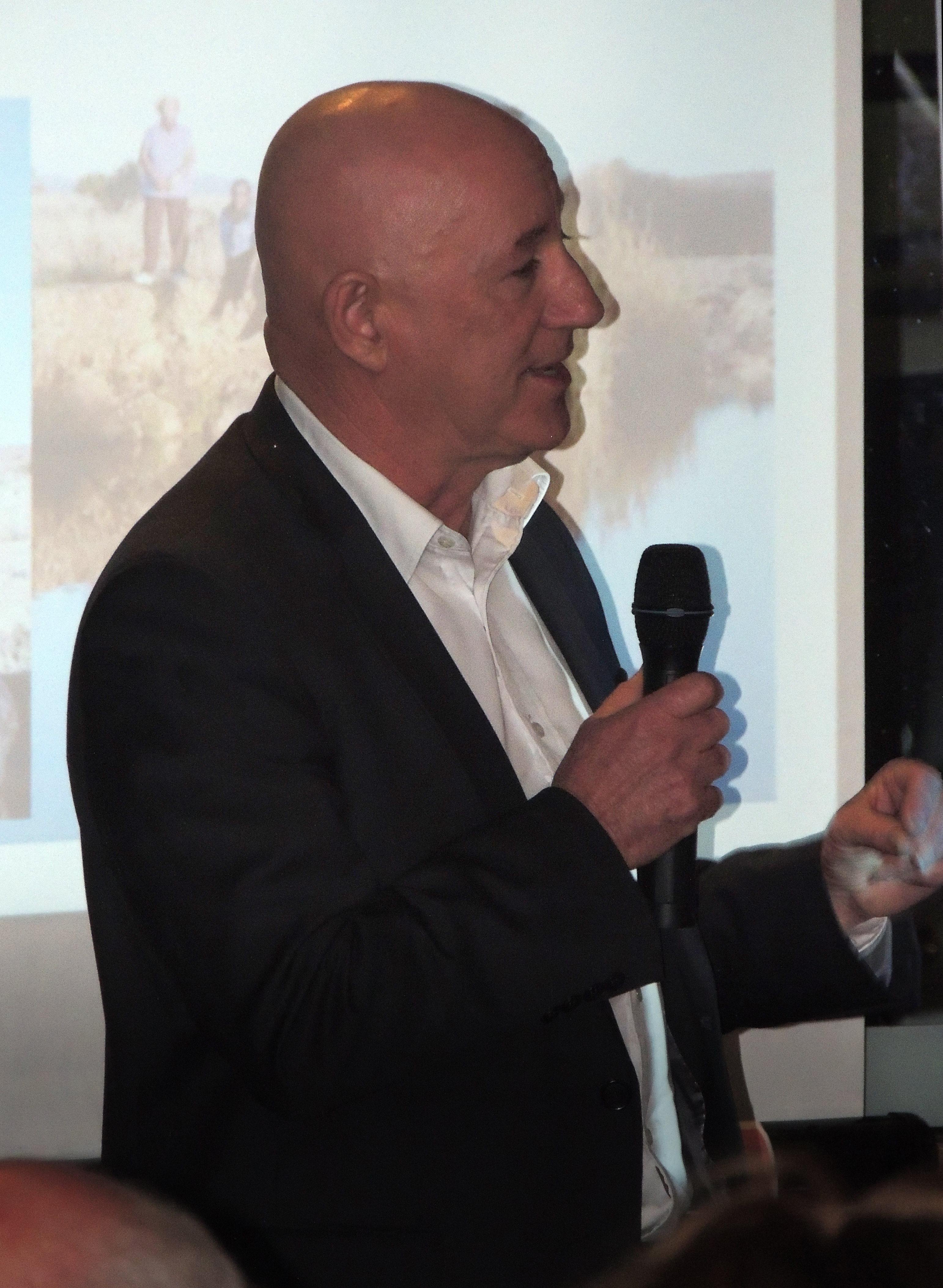 Eddie Hughes speaks at an event in Hindmarsh, South Australia 2016